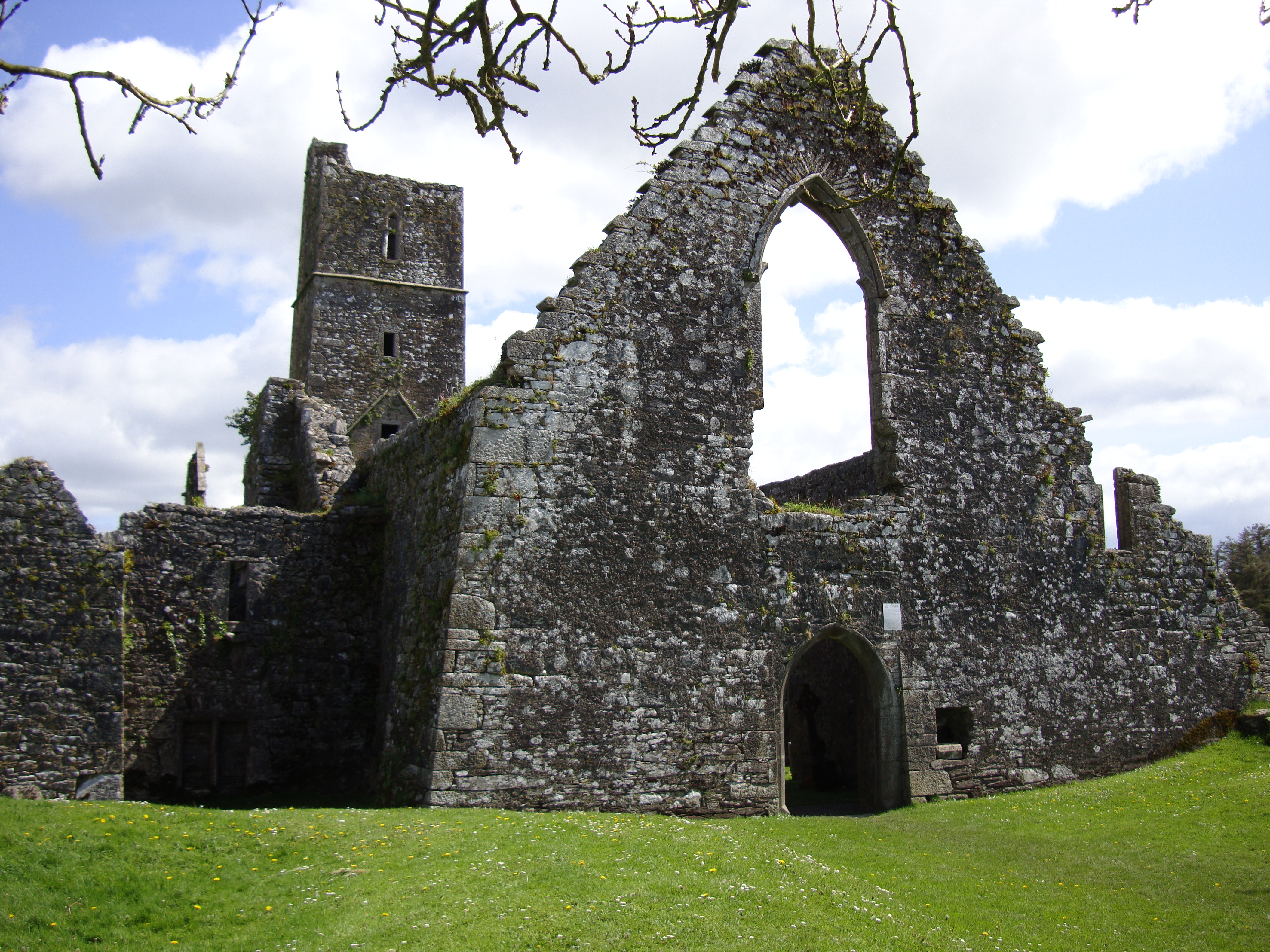 Photograph of Kilcrea Friary, Co. Cork, Republic of Ireland